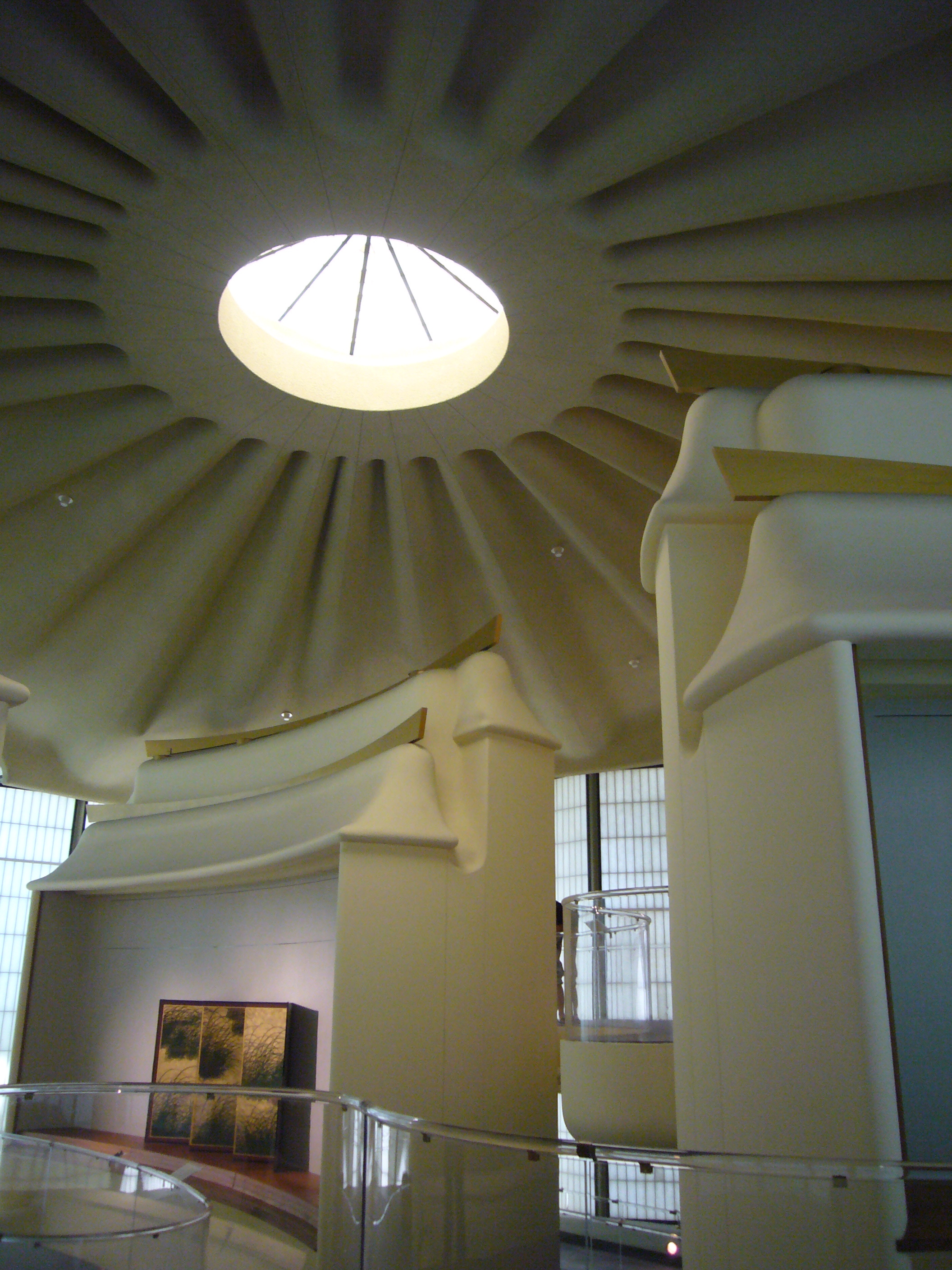 Interior of the Pavilion for Japanese Art. At the Los Angeles County Museum of Art (LACMA), Los Angeles, California. Designed by eclectic/expressionist architect Bruce Goff, in the late 1970s.